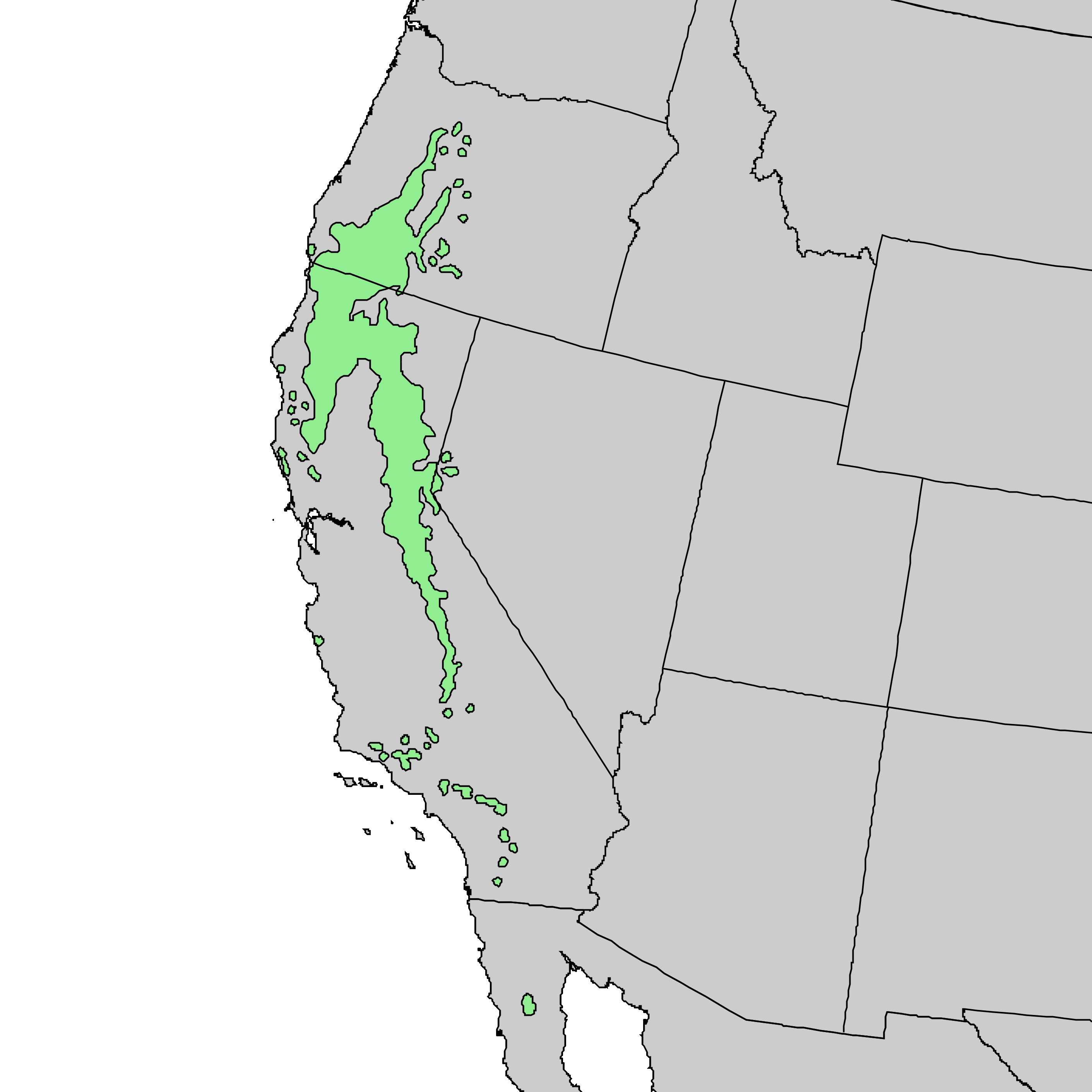 Natural distribution map for Pinus lambertiana